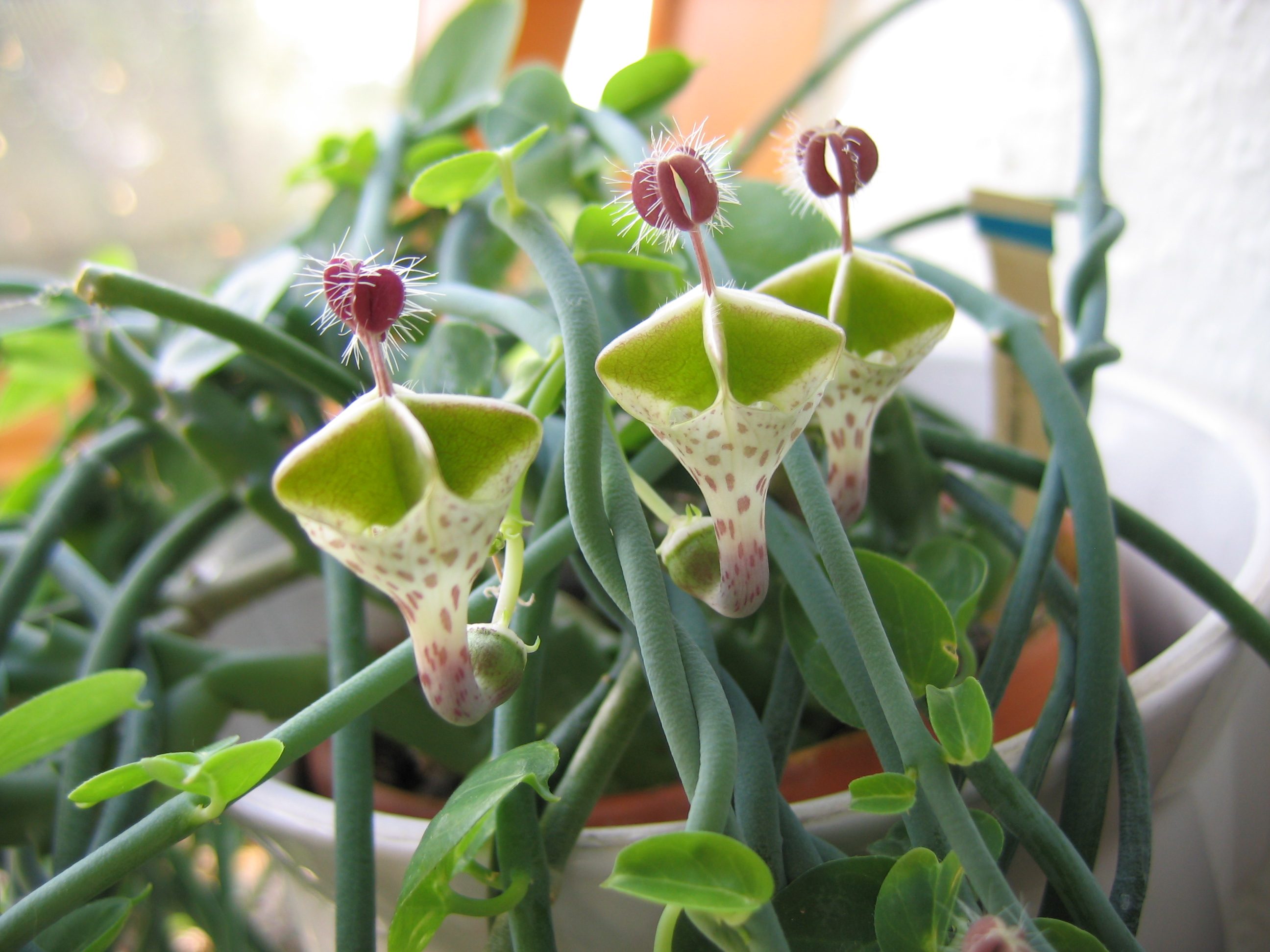 Ceropegia haygarthii